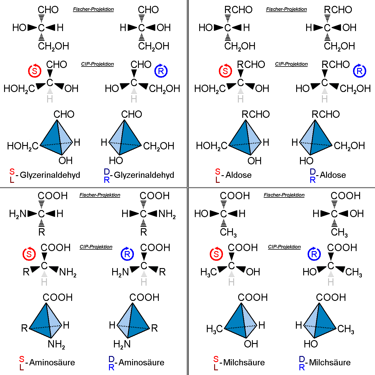 Examples of absolute configuration of carbohydrates and amino acids according to Fischer projection resp. D/L system and Cahn–Ingold–Prelog priority rules resp. R/S system